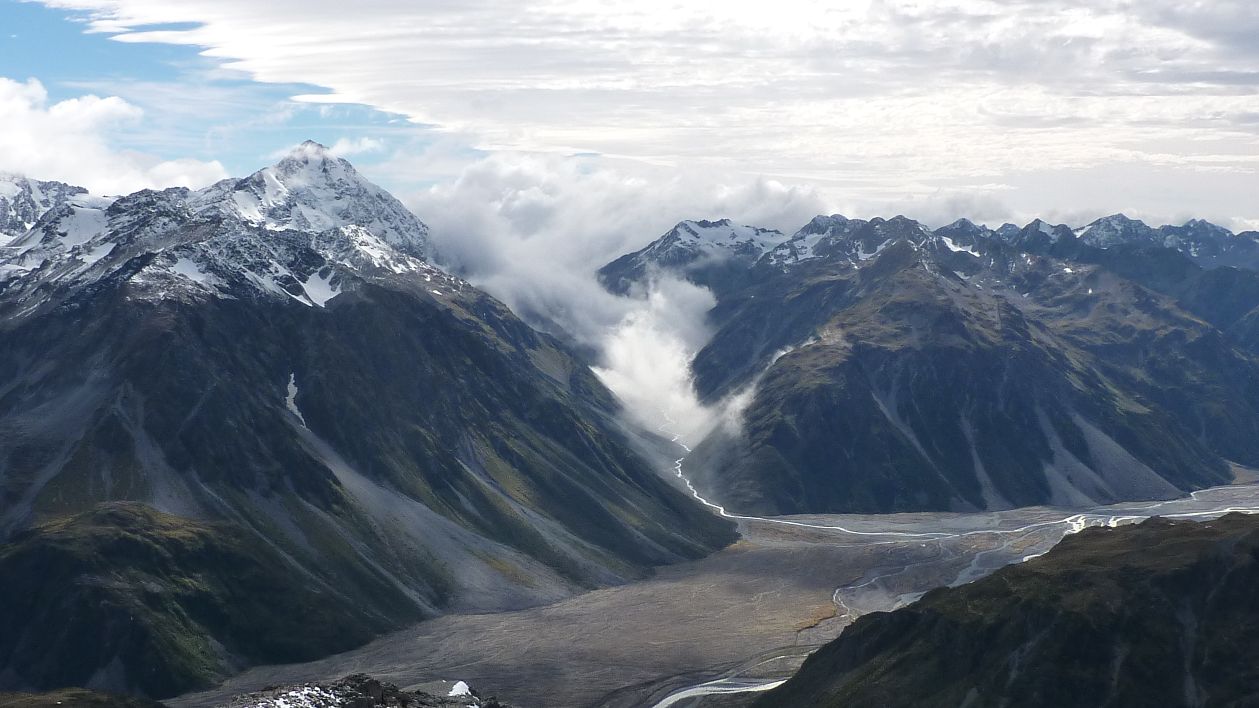 Rakaia River in the foreground -from near Butler Saddle. Lauper stream is merging from under the cloud near photo center. -43.3064 Lat, 170.9253 Lon